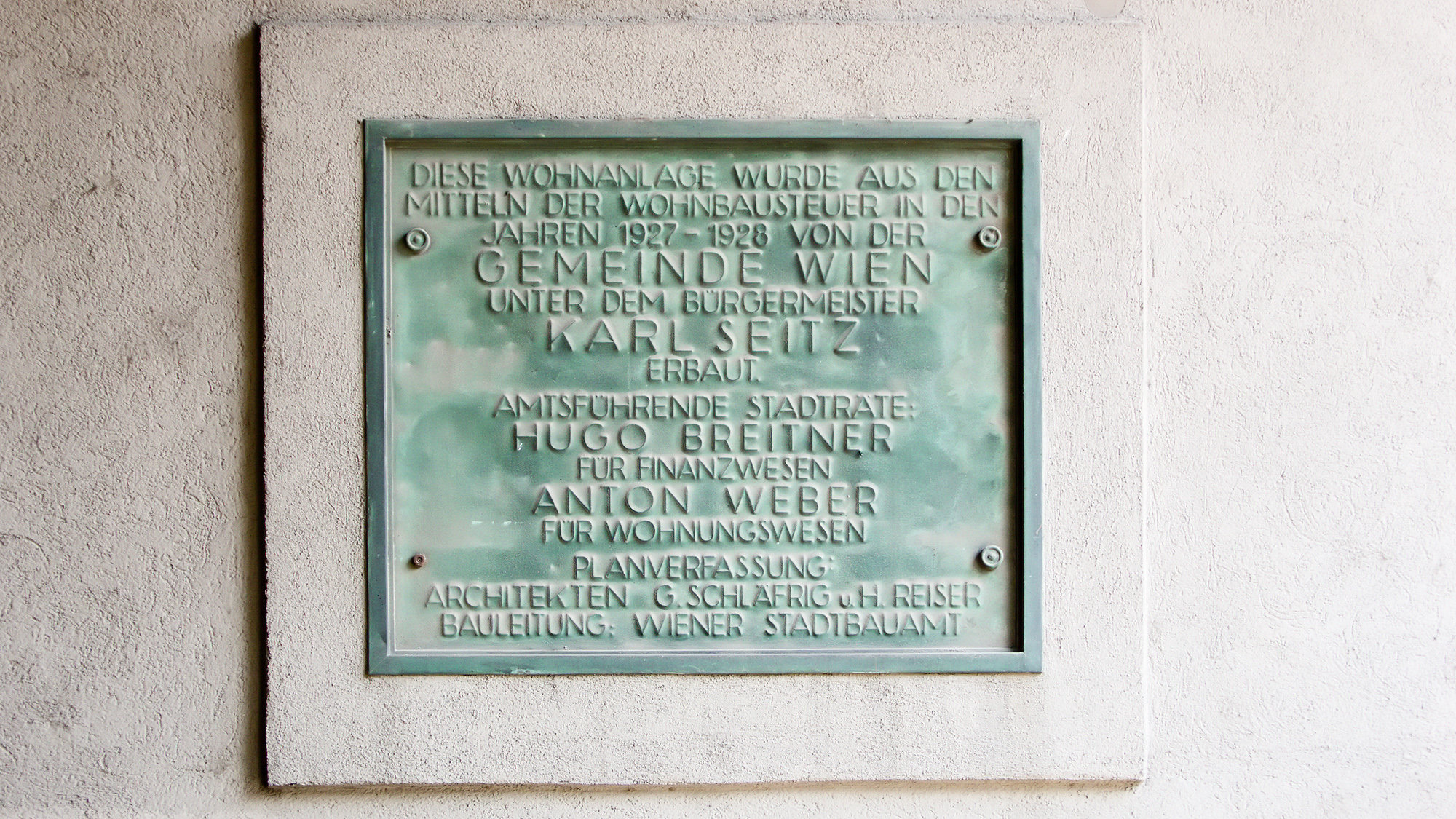 Residential buildings Wohlmutstraße 14-16 in Vienna Leopoldstadt, commemorative plaque